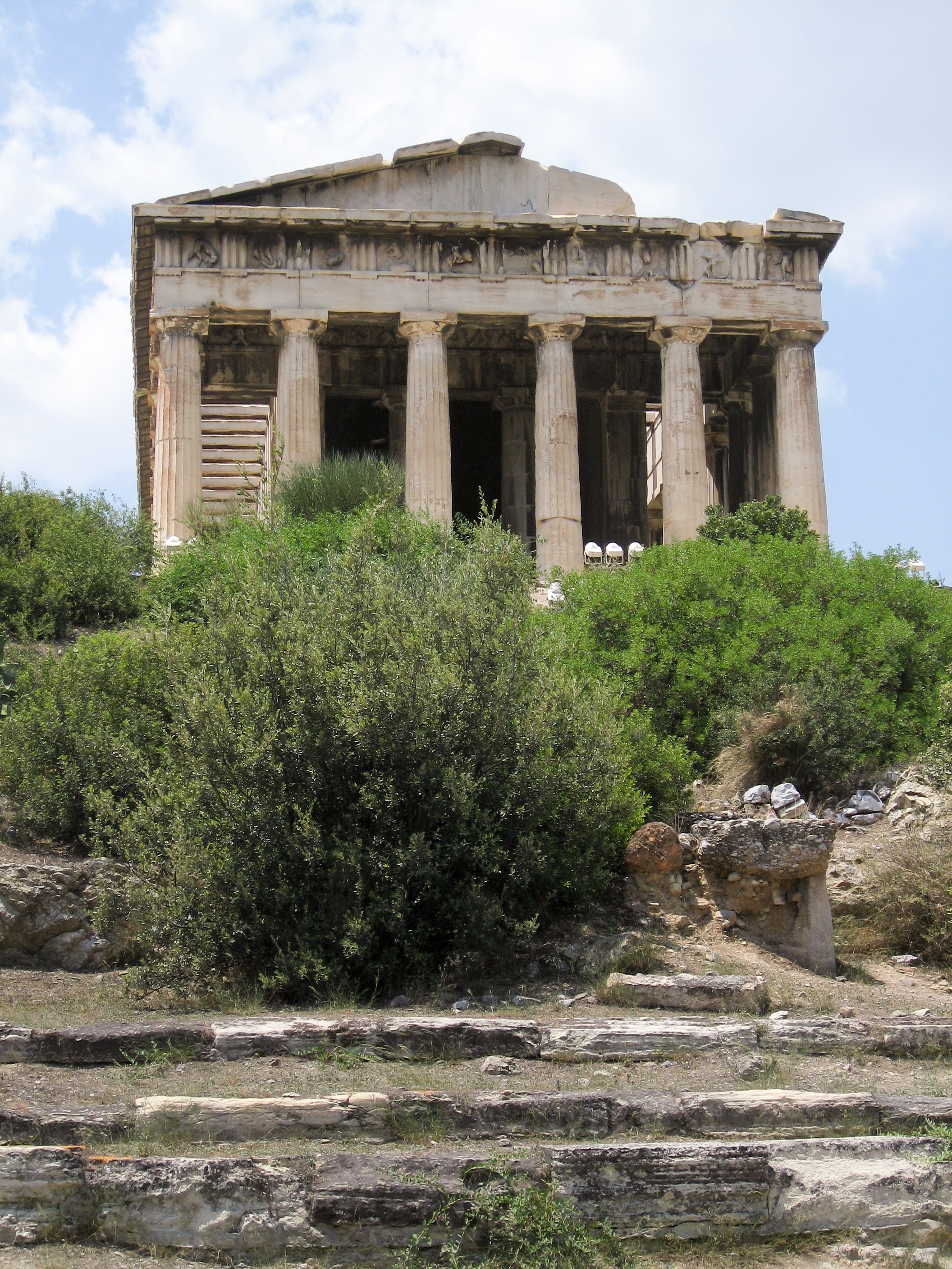 The facade of the Hephaistion in Athens